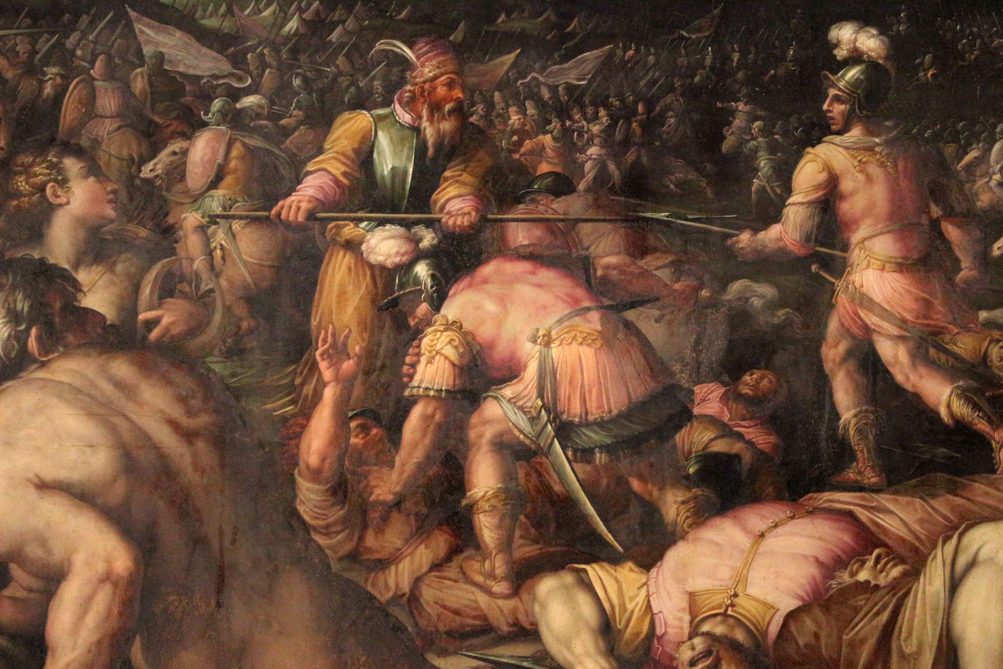 Salone dei Cinquecento - Ceiling